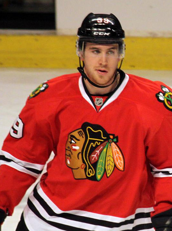 Jimmy Hayes on the ice for the Chicago Blackhawks, 2011-2012 season. Picture by Cheryl Adams/HockeyBroad